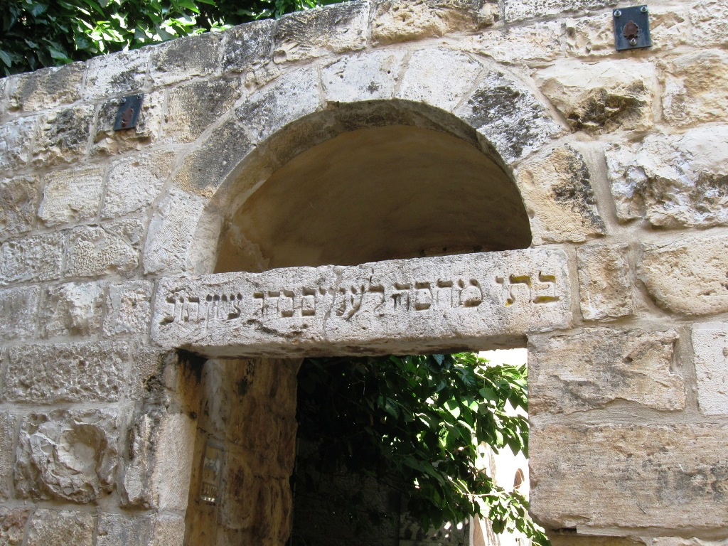 (בתי מחסה לעניים בהר ציון תובבא "Almshouses on Mount Zion, may it be rebuilt & reestablished speedily in our days, Amen")